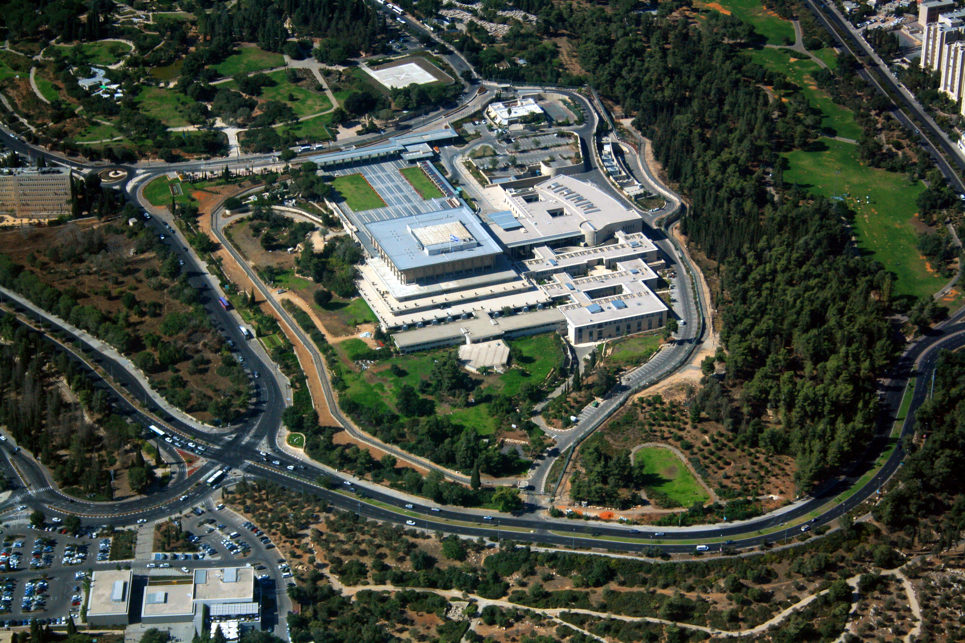 Building of the Knesset.